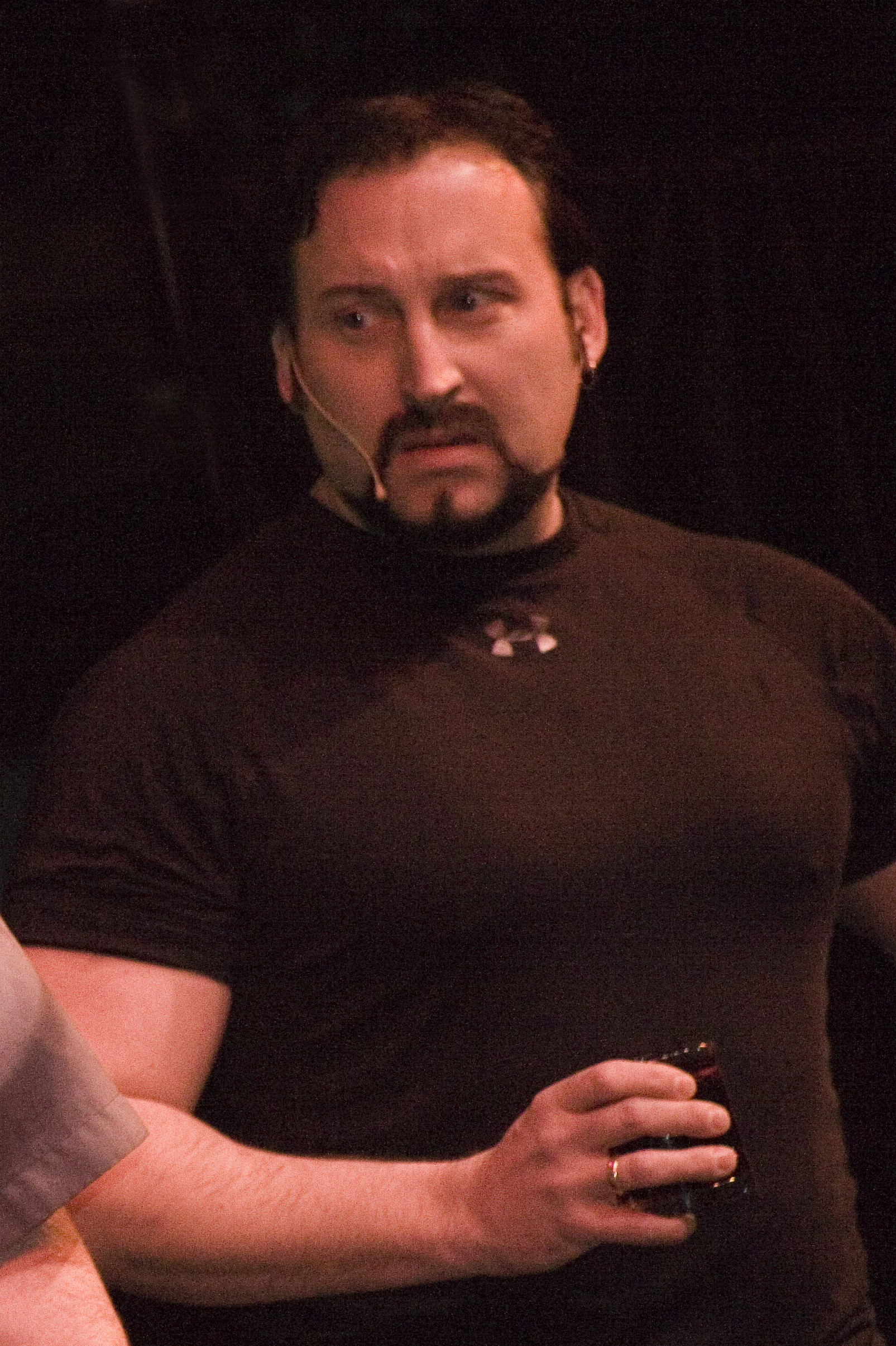 The Trailer Park Boys from the Canadian mockumentary television series, Mike Smith (Bubbles, l) Robb Wells (Ricky, c) and John Paul Tremblay (Julian, r).